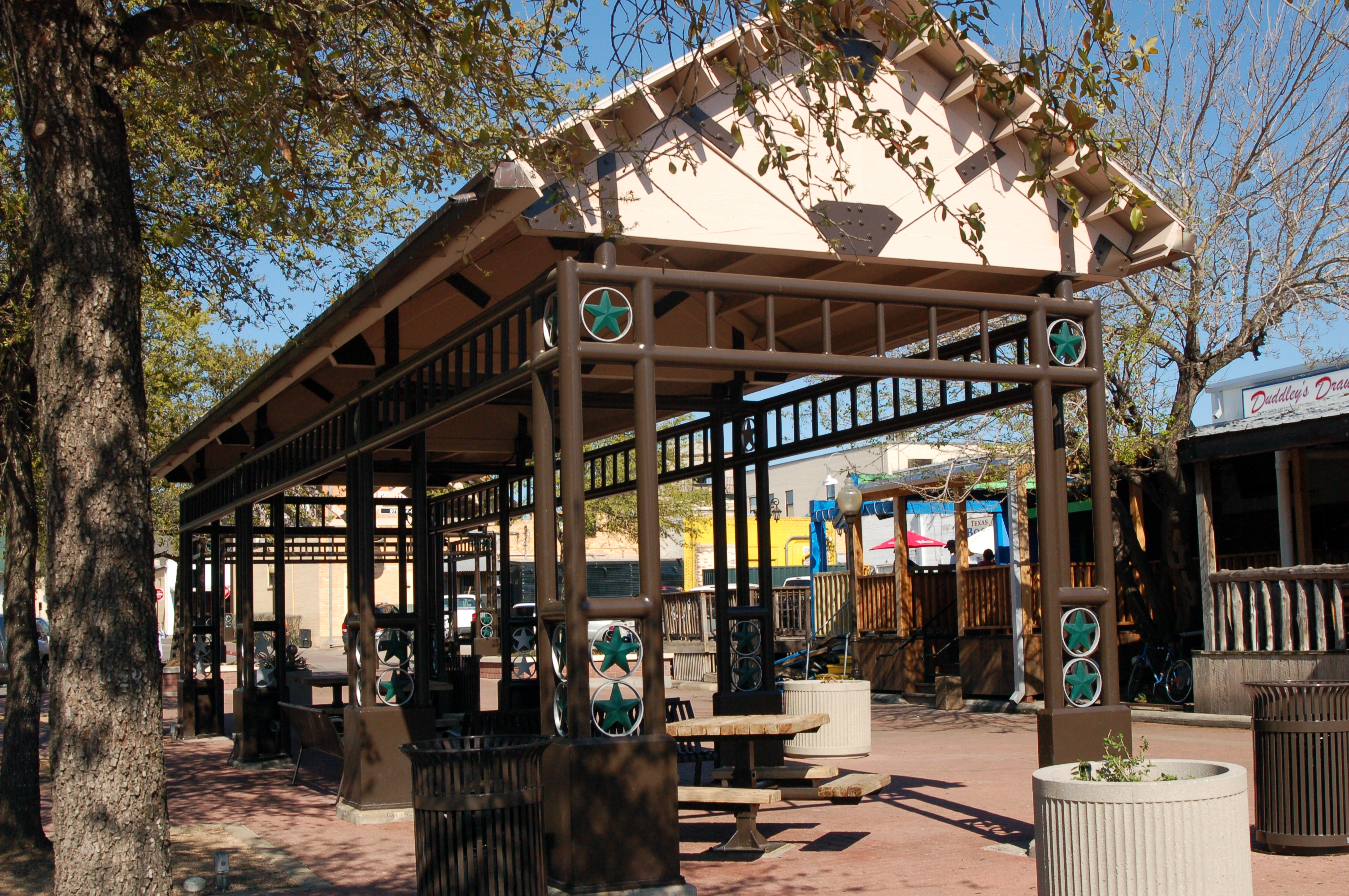 Pavilion at Northgate, Texas